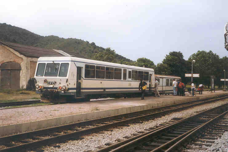 A motor coach of the corsean railways, France.